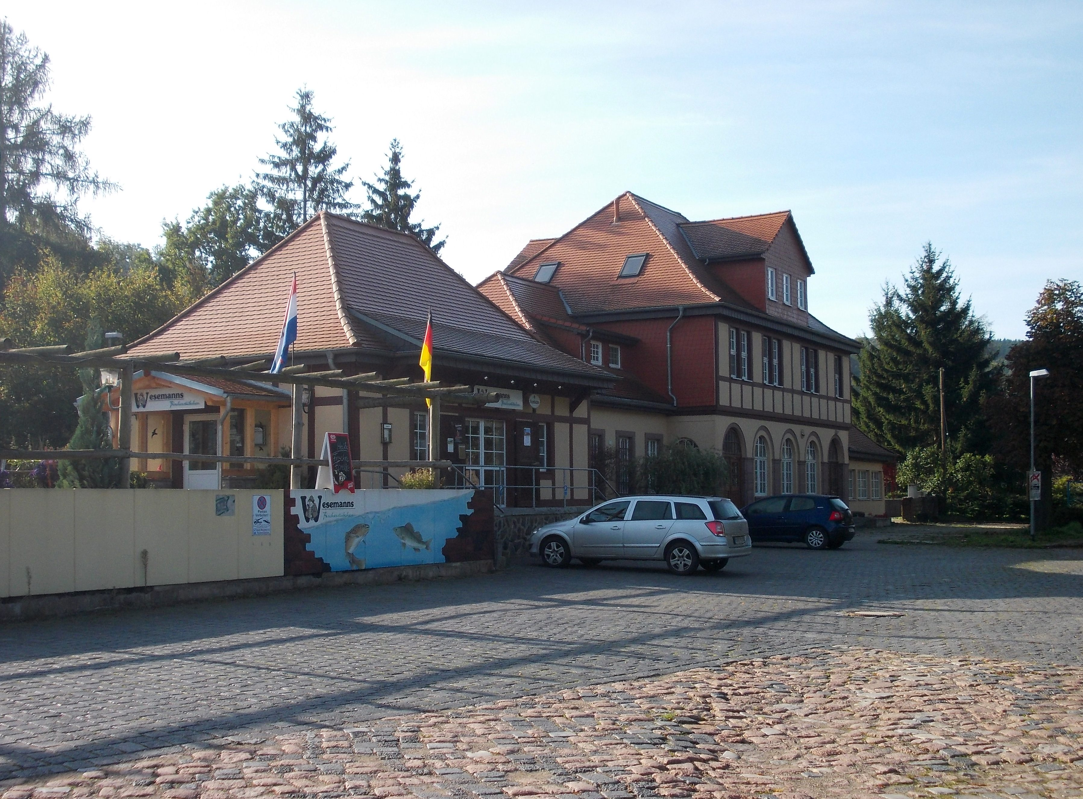 Wippra train station (Sangerhausen, Mansfeld-Südharz district, Saxony-Anhalt)